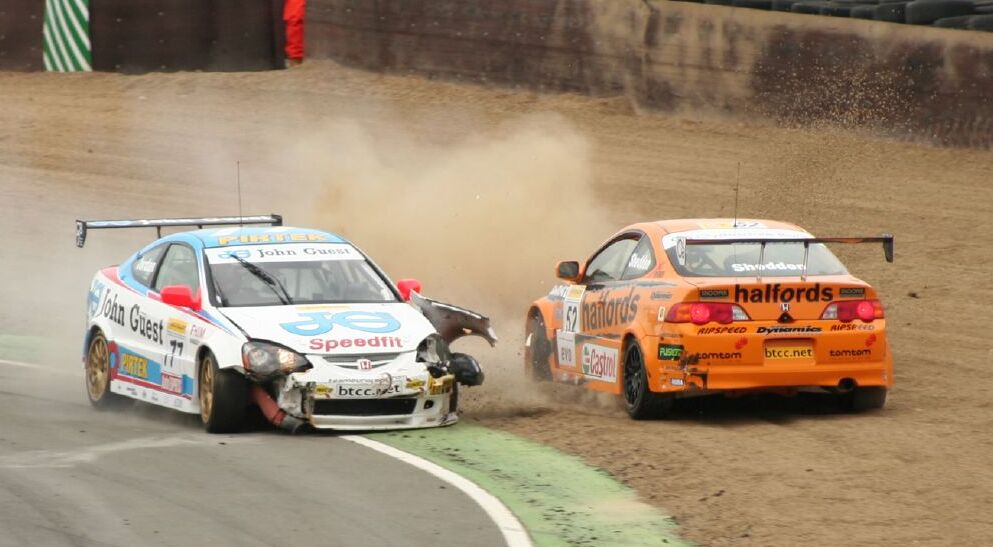 Gordon Shedden and Mike Jordan collide at Paddock Hill Bend during the 2006 BTCC race.